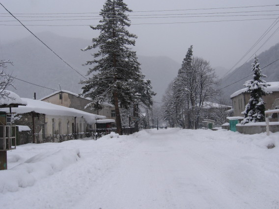 Winter in Pasanauri